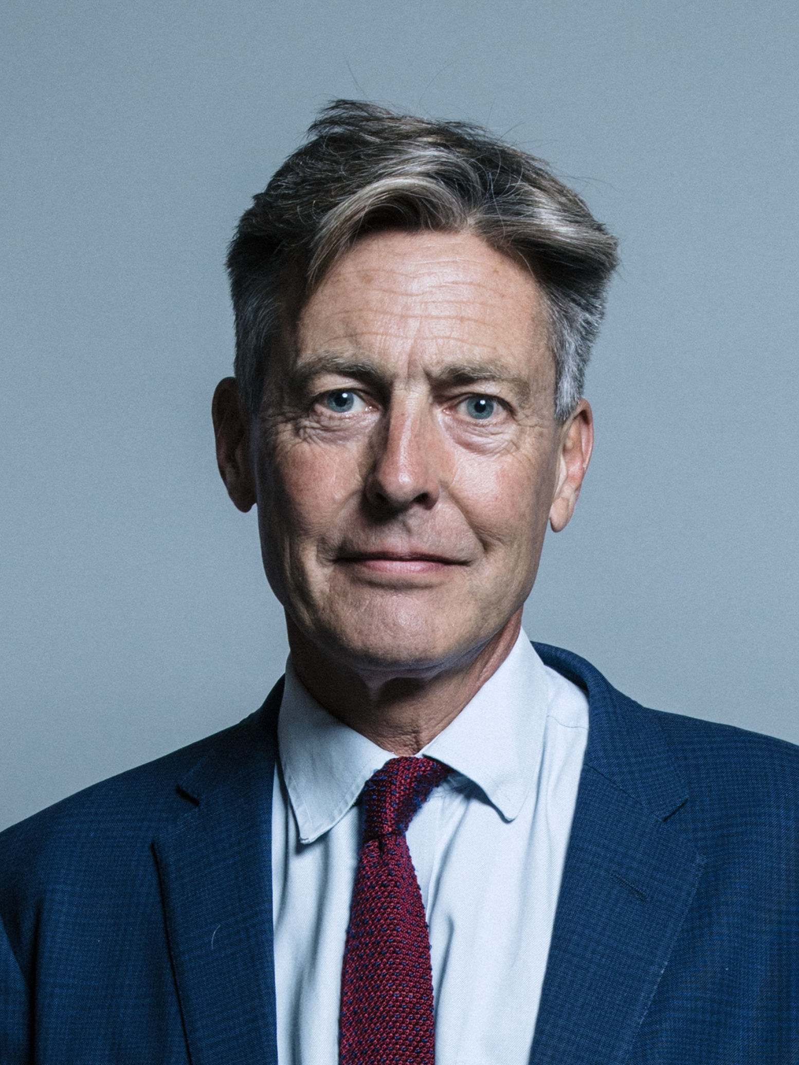 Official portrait of Mr Ben Bradshaw